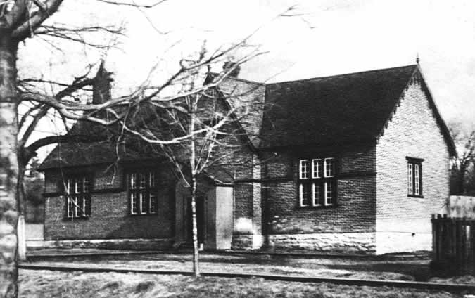 A photograph of the Diocesan Theological Institute in Cobourg, Province of Canada, circa 1848.